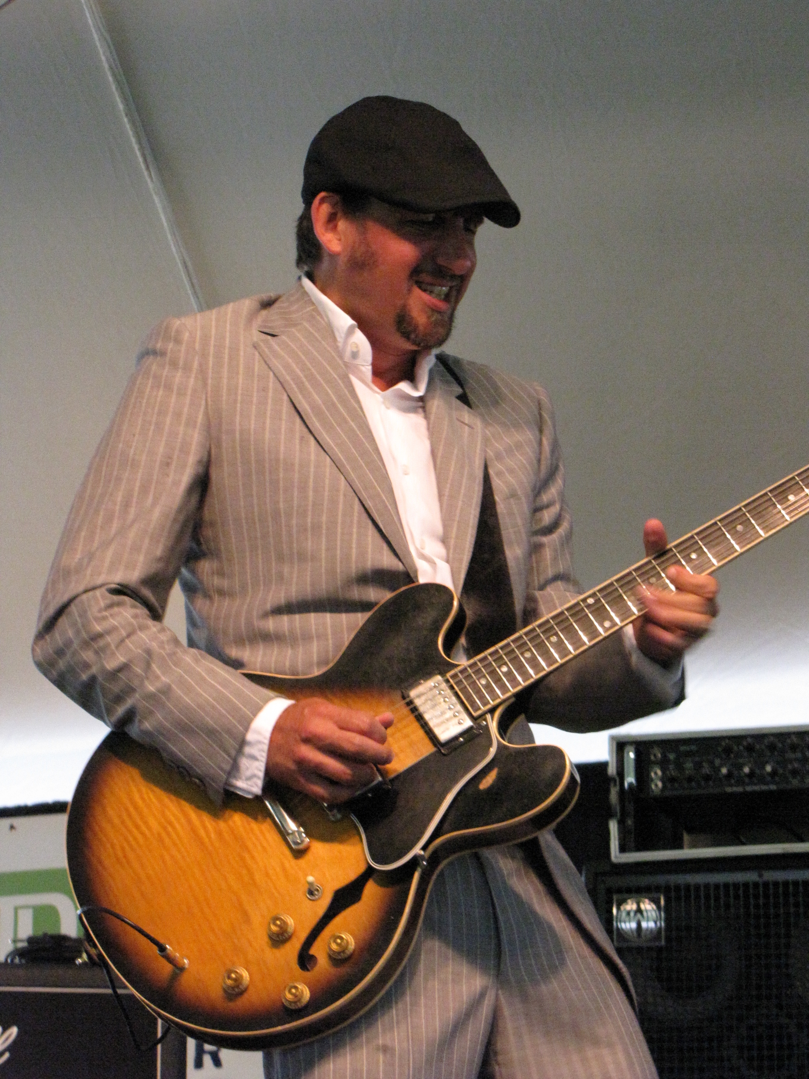 Steve Strongman performing at the Kitchener Blues Festival